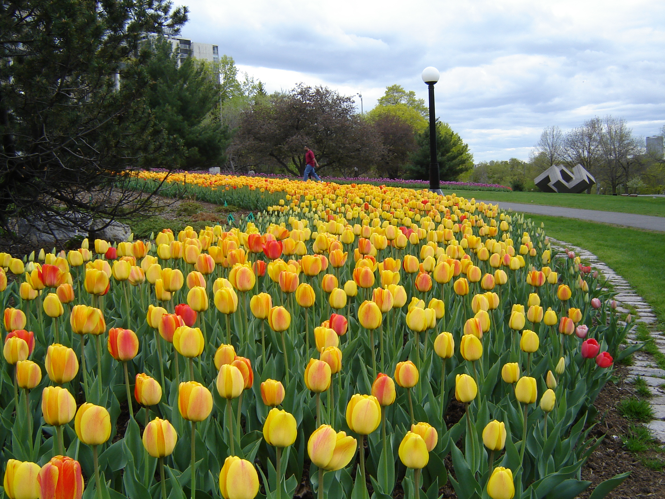 Picture from the Garden of the Provinces and Territories in Ottawa, Ontario, Canada during the 2006 Tulip Festival